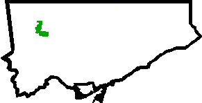 Locator map of Pelmo Park-Humberlea in Toronto, Ontario, Canada. Based off locator maps created by user Alaney2k.